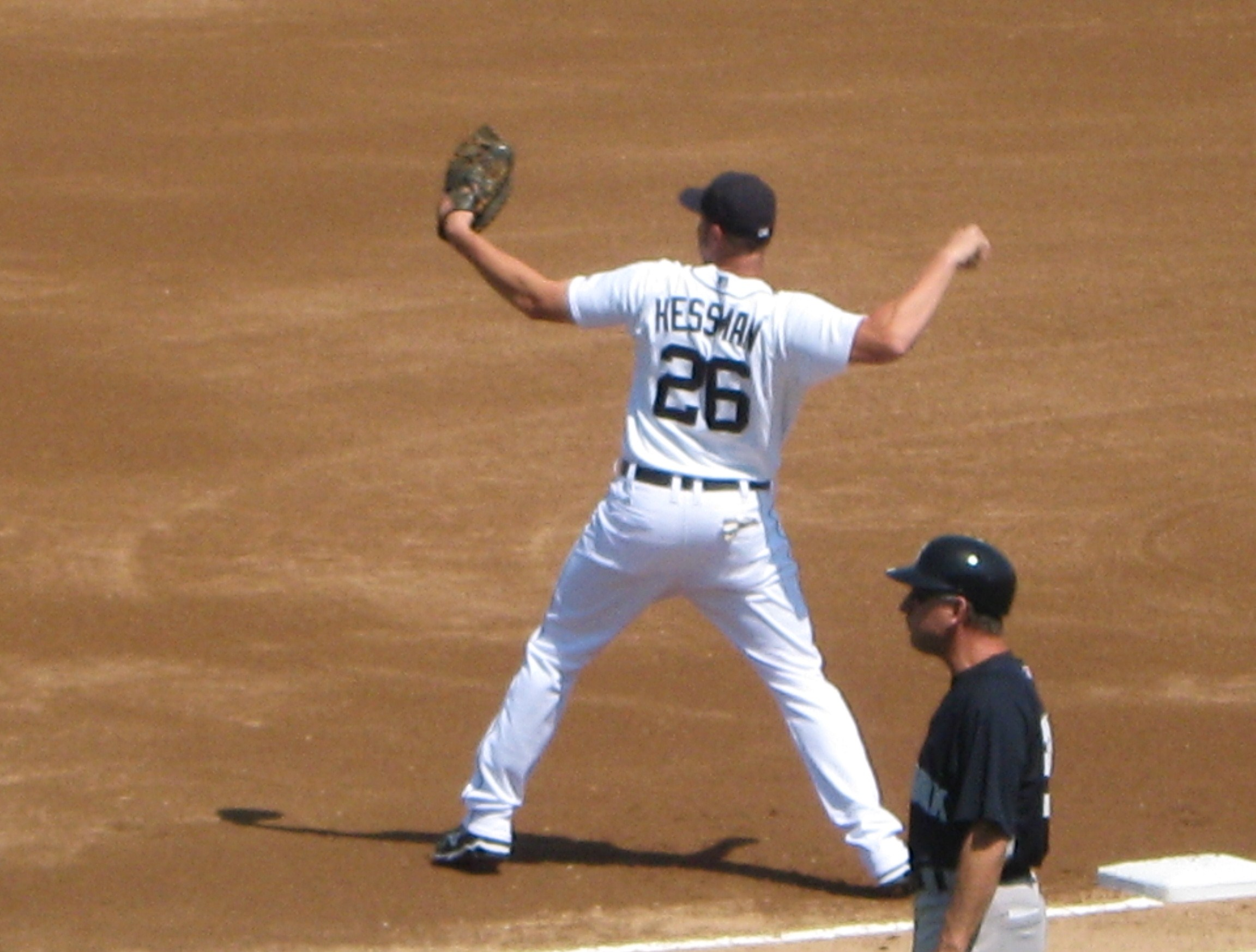 Description Mike Hessman playing first.Date March 11, 2009Source I created this work entirely by myself.Author RHMI (talk) 23:50, 15 March 2009 . . RHMI . . 2,304×1,747 (472 KB) Mike Hessman playing first.